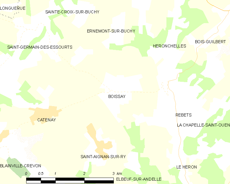 Map of French municipality Boissay